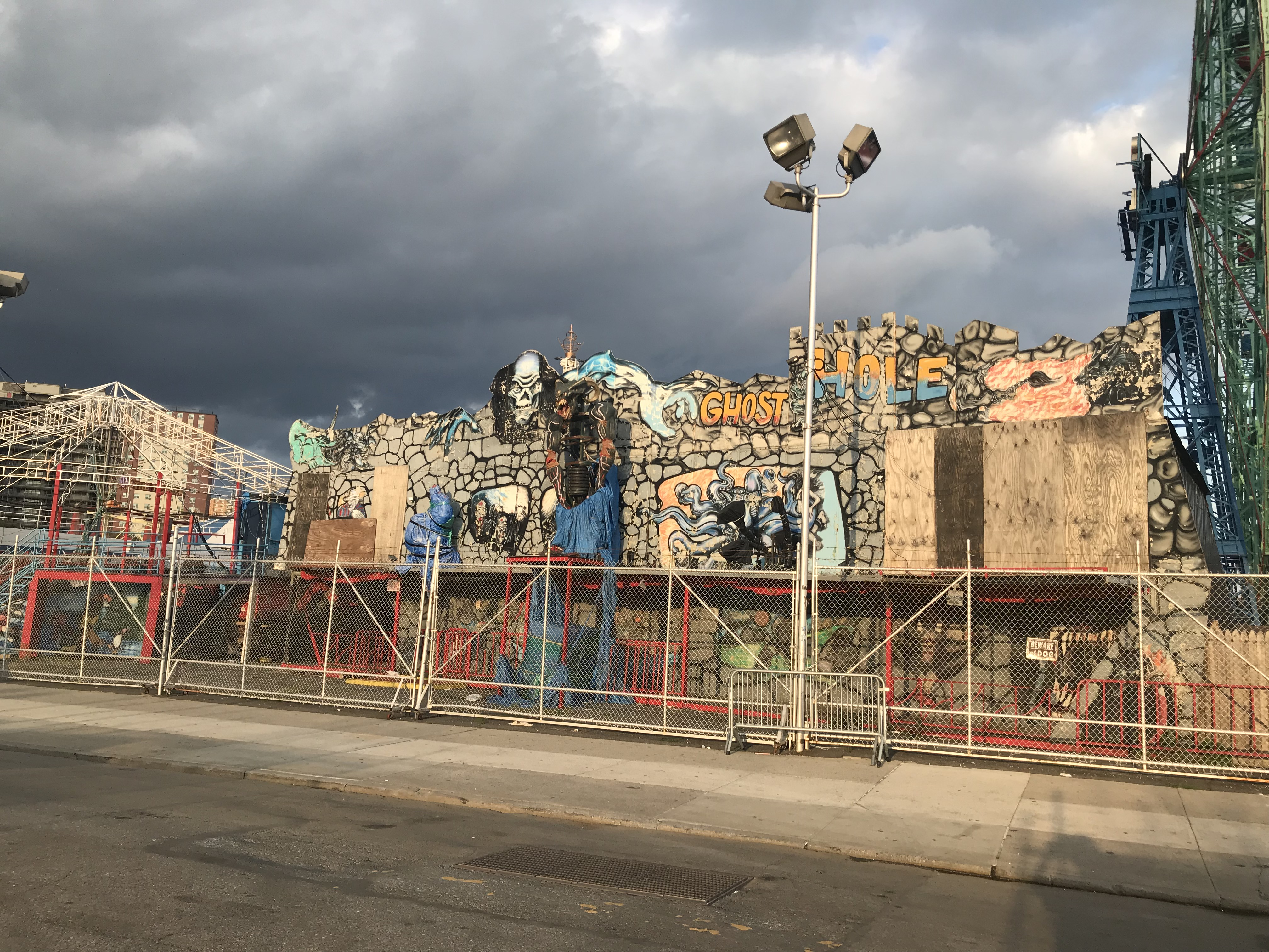 The current state of the former Ghost Hole attraction at Coney Island in Brooklyn